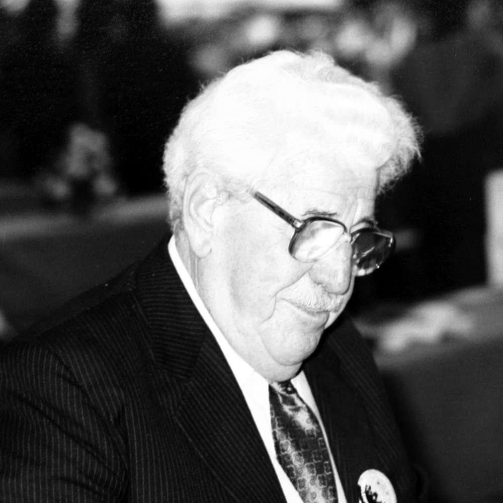 Willy Millowitsch, German actor, at „Kanzlerfest“ (Chancellor party) 1987